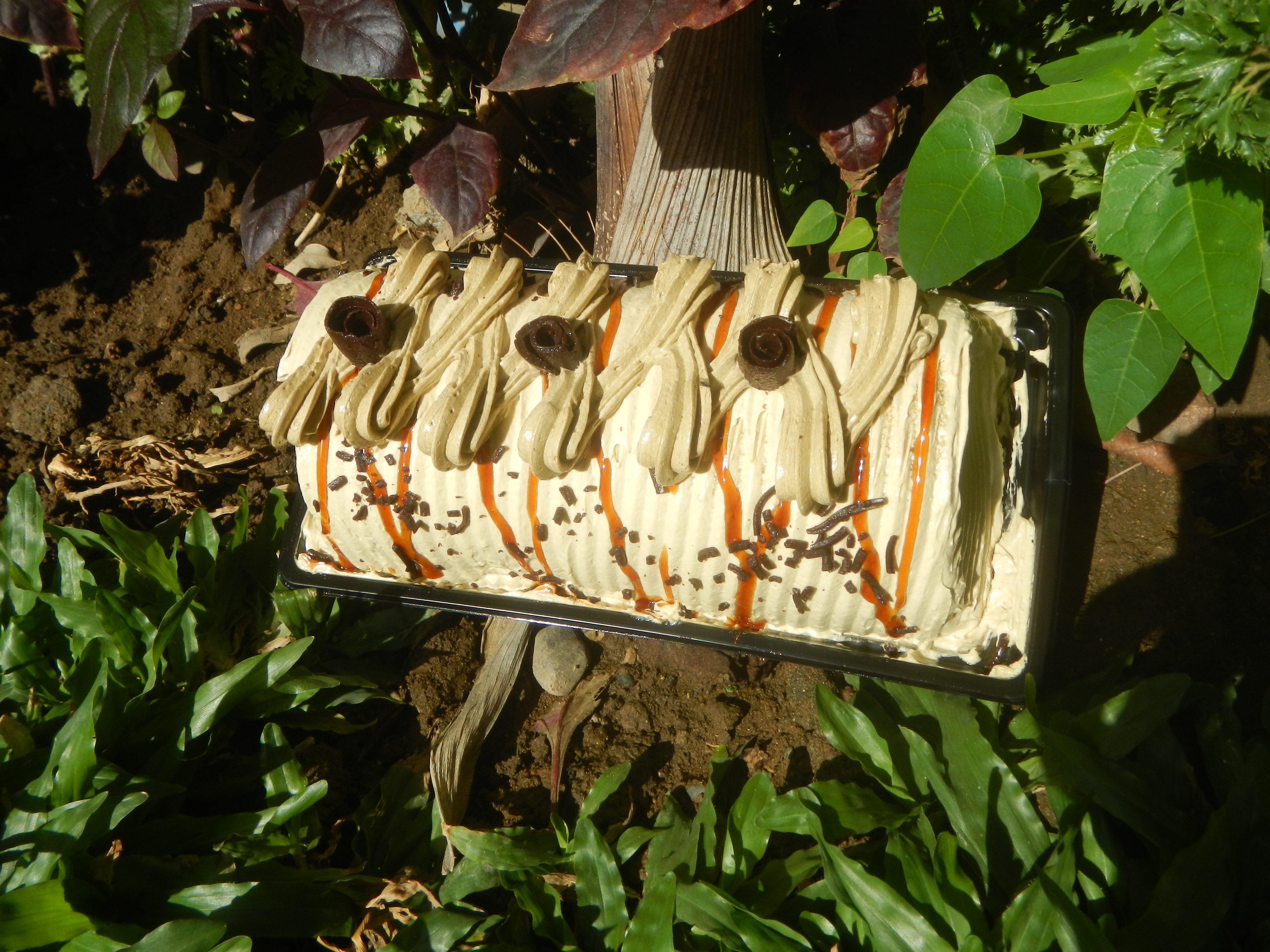 Mocha cakes in the Philippines (Note: Judge Florentino Floro, the owner, to repeat, Donor Florentino Floro of all these photos hereby donate gratuitously, freely and unconditionally all these photos to and for Wikimedia Commons, exclusively, for public use of the public domain, and again without any condition whatsoever).